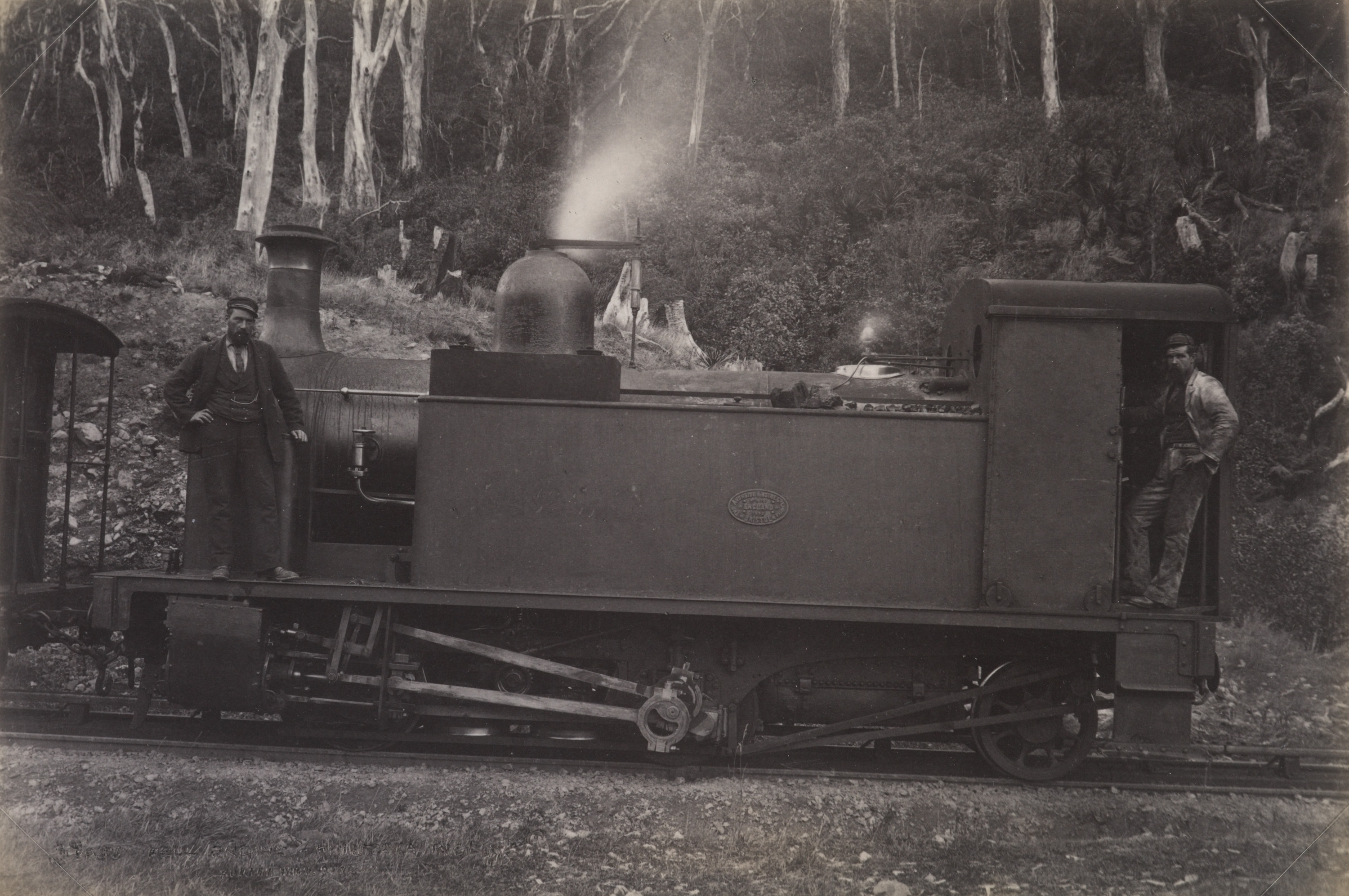 Engine. Rimutaka Incline Fell railway between Featherston and Cross Creek New Zealand